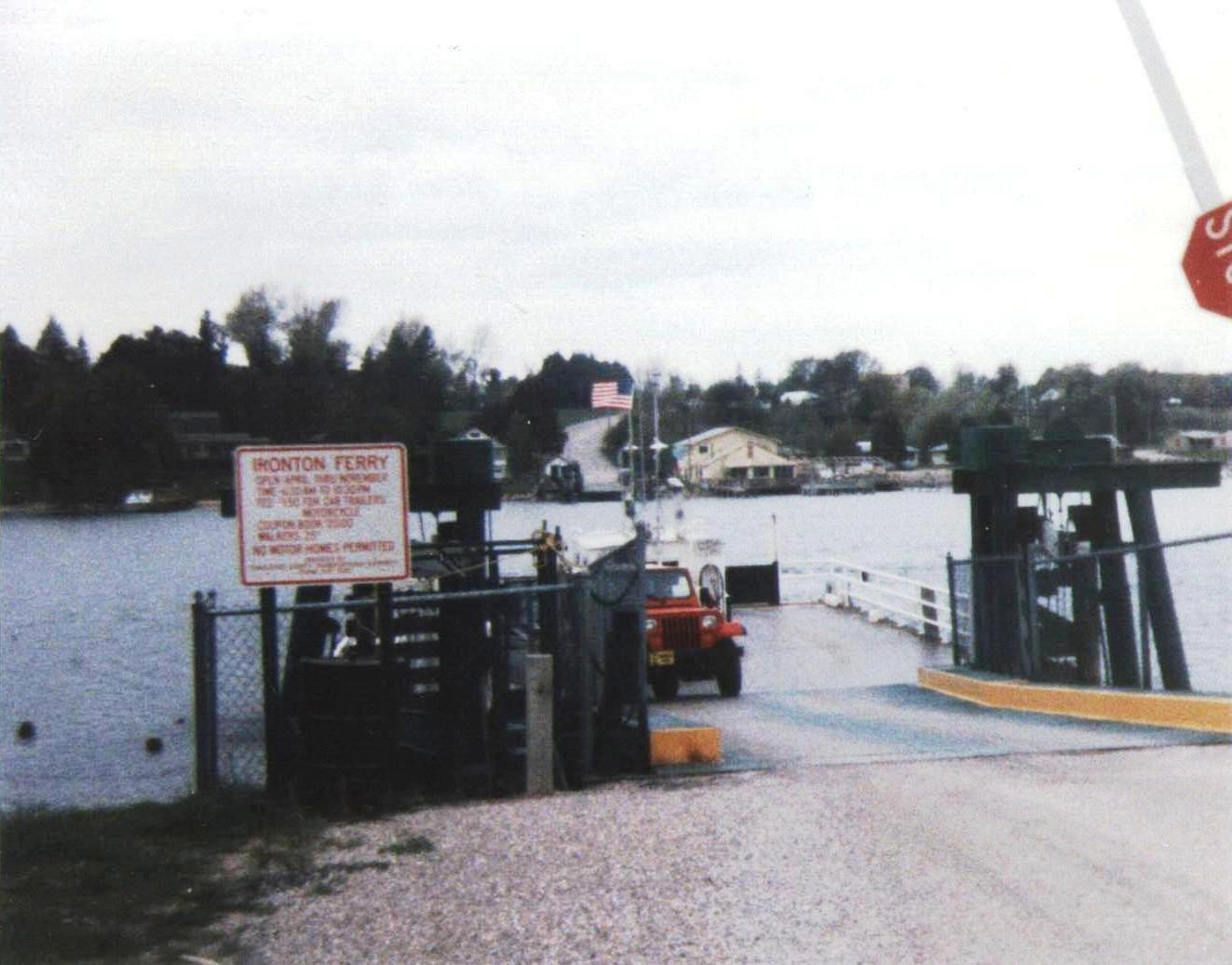 Ironton Ferry which crosses Lake Charlevoix, Charlevoix County, Michigan, May of 1990.